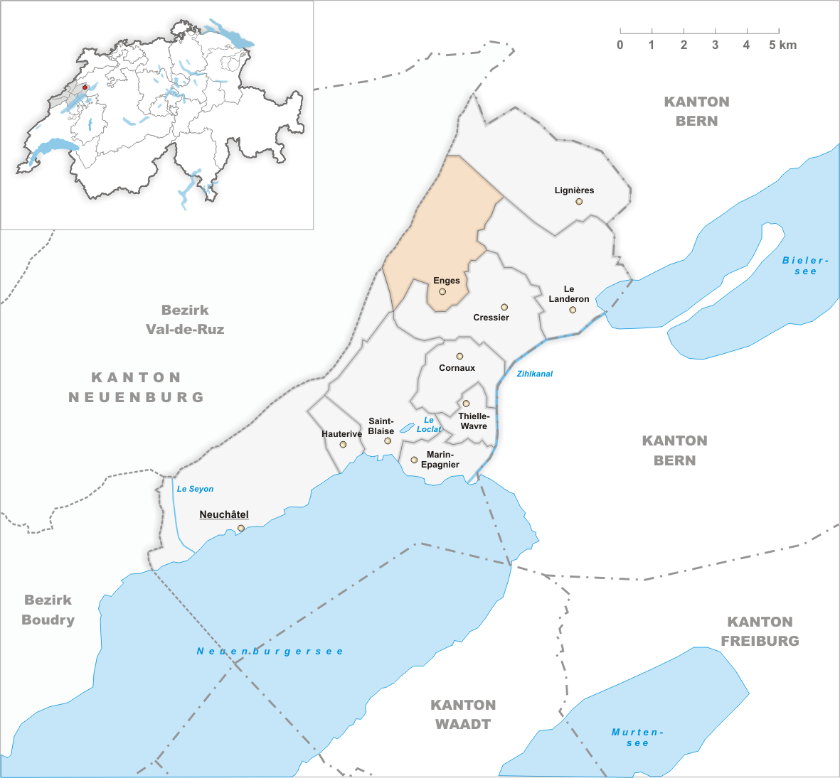 Municipality Enges